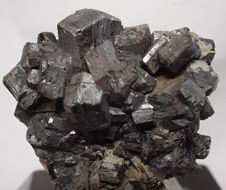 Braunite Locality: N'Chwaning Mines, Kuruman, Kalahari manganese fields, Northern Cape Province, South Africa (Locality at ) This is an exquisite, complete-all-around specimen composed of sharp crystals of braunite, to just over 1 cm in size. Hefty and impressive, as well! 4.5 x 4 x 2.5 cm